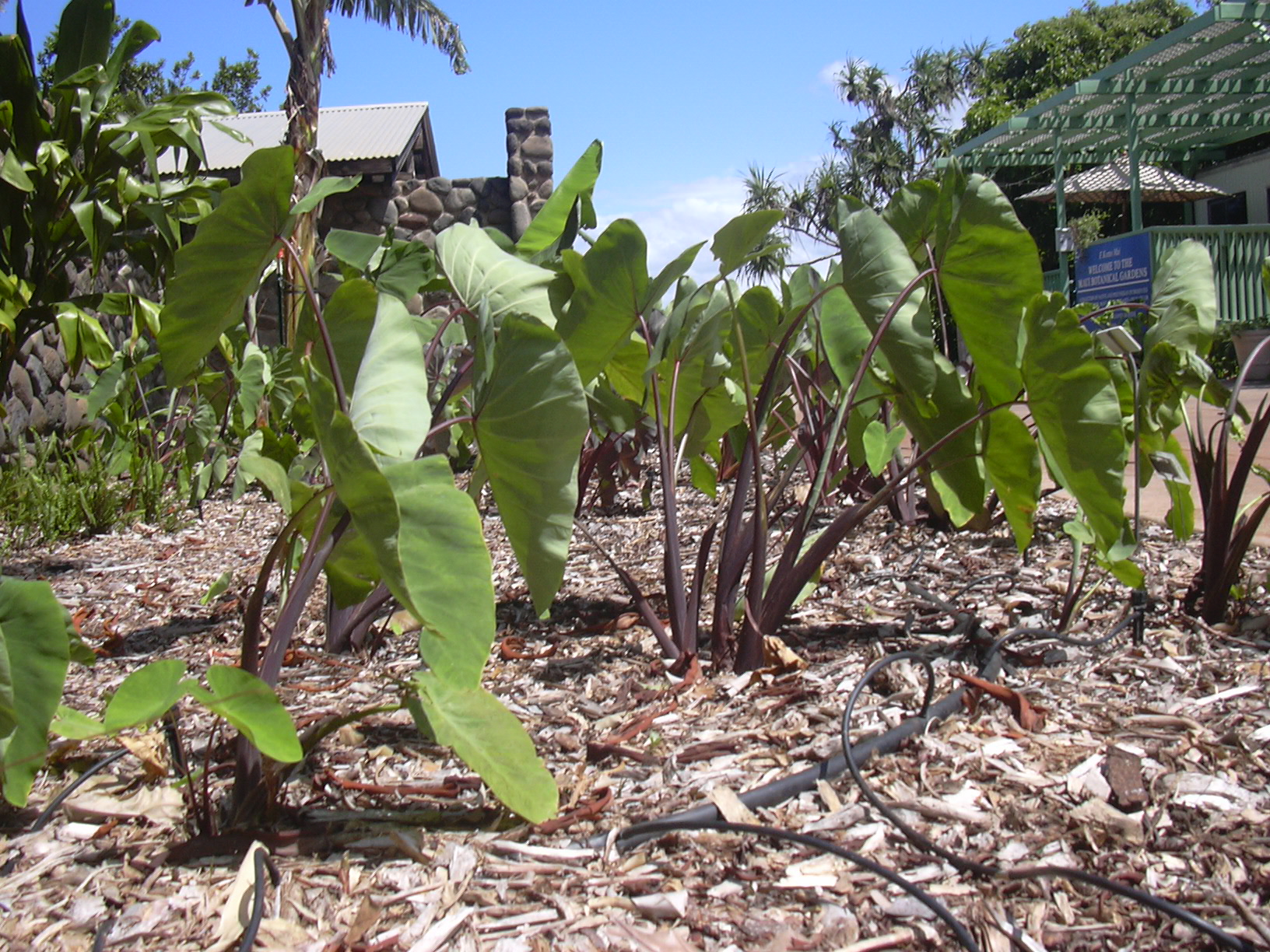 Colocasia esculenta (habit). Location: Maui, Maui Nui Botanical Garden